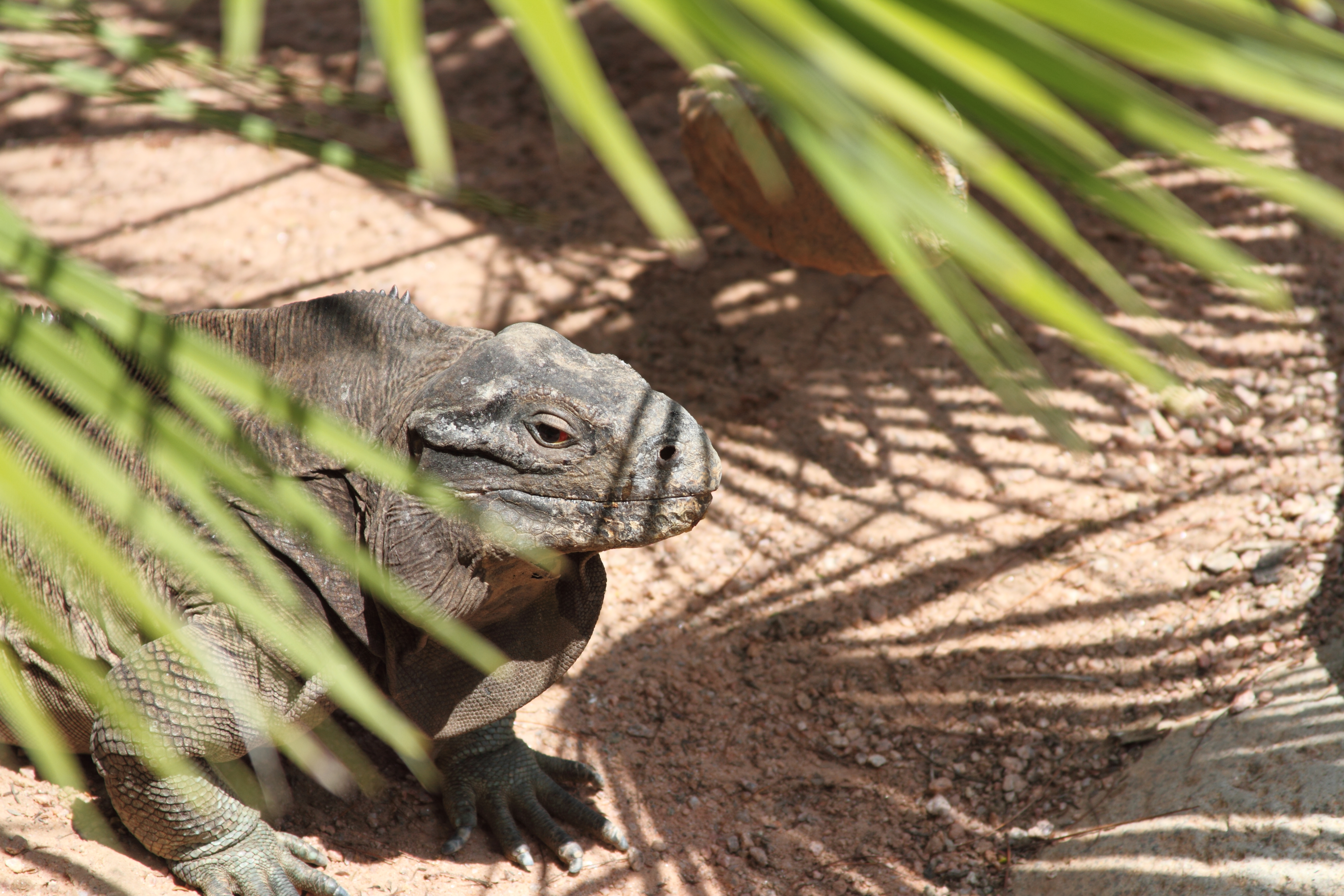 Image of an Exuma Island Iguana (Cyclura cychlura figginsi) at the San Diego Zoo.